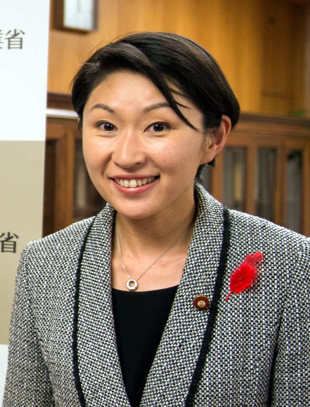 Caroline Kennedy, Ambassador to Japan, met Yūko Obuchi, Minister of Economy, Trade and Industry, at the Ministry of Economy, Trade and Industry in Chiyoda Ward, Tōkyō Metropolis on October 14, 2014.